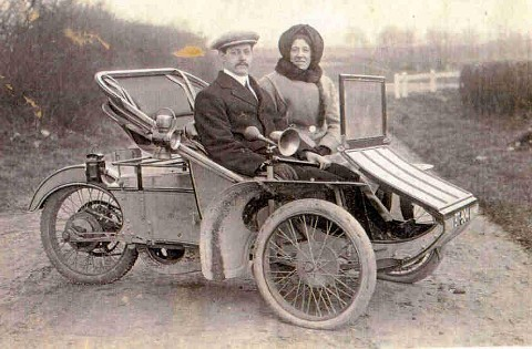 AC Sociable (Three-wheeler car) (1908)